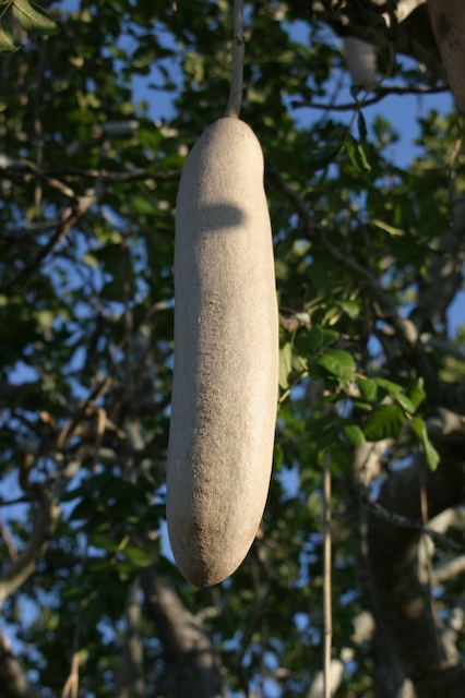 Fruit of Kigelia africana